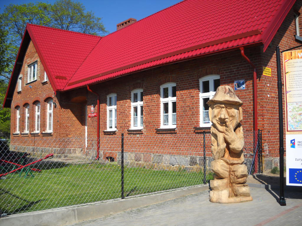 Statue of Kashubian mytical personage Wëkrëkùs located on the „Poczuj Kaszubskiego Ducha” tourist route (Kętrzyno, Poland).